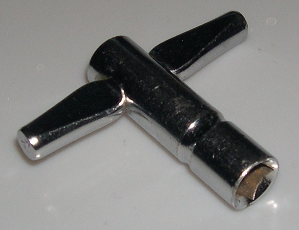 Drums key wrench. Size of the square hole: 6mm x 6mm. Total heigh: about 3 cm.